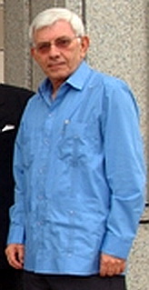 Belize PM Said Musa at the opening of US Embassy Belmopan